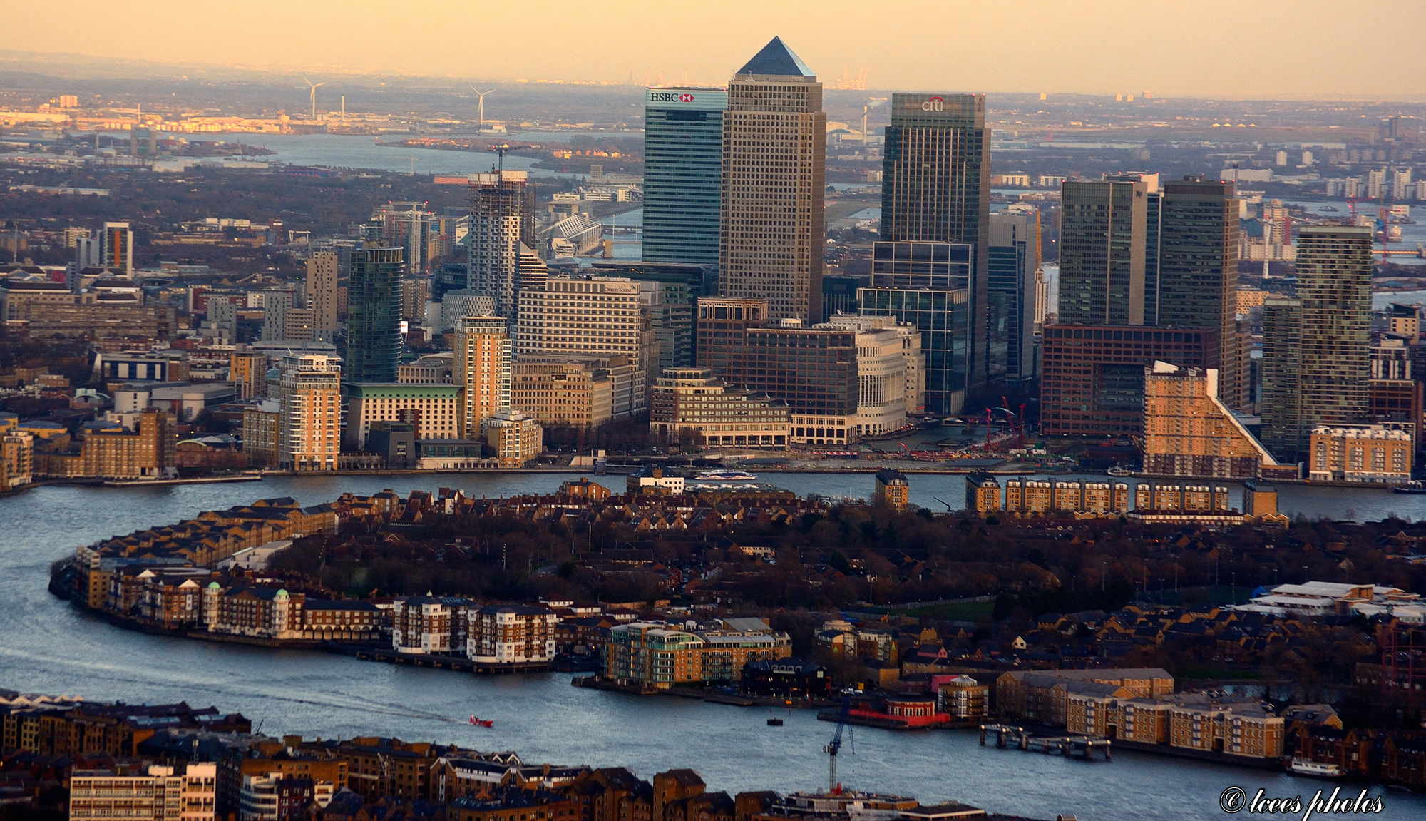 Canary Wharf